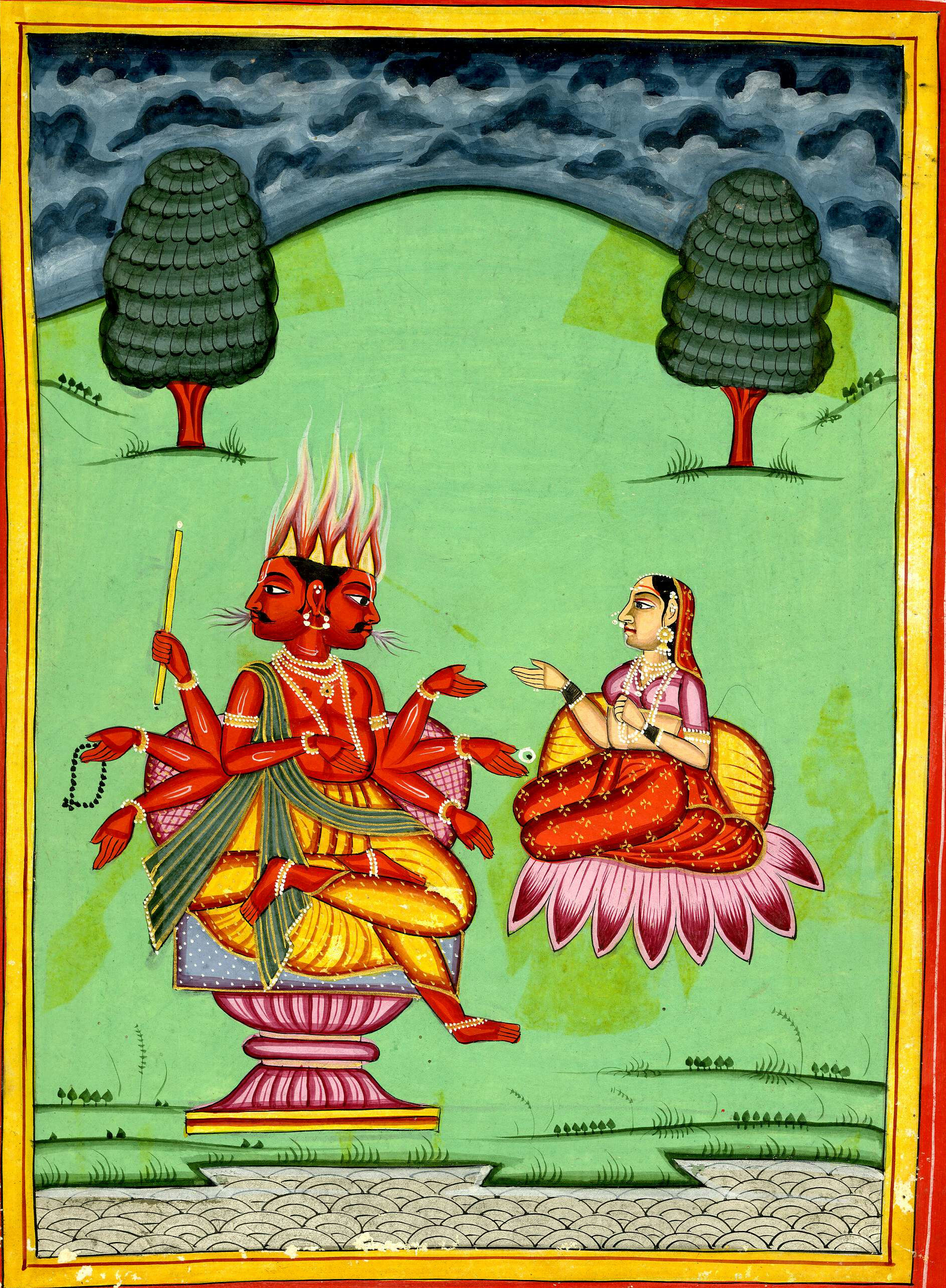 Album leaf; painting. Agni and his consort. Painted on paper. According to register, folio 21.